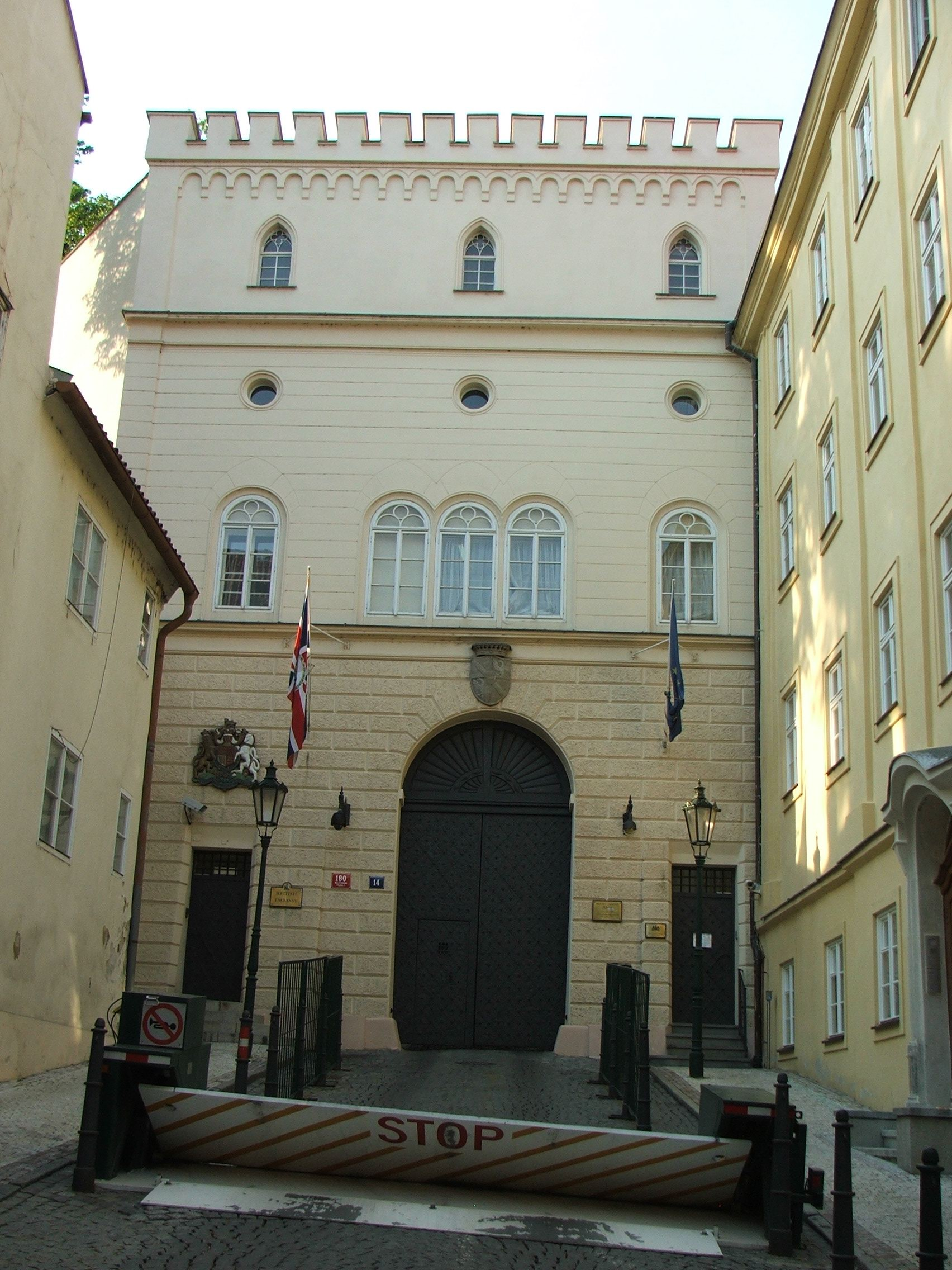 Thun Palace - seat of Embassy of the United Kingdom in Prague - Malá Strana, Czechia